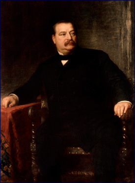 Portrait of Grover Cleveland (1837-1908). Official White House portrait of Grover Cleveland, painted in 1891 by Jonathan Eastman Johnson